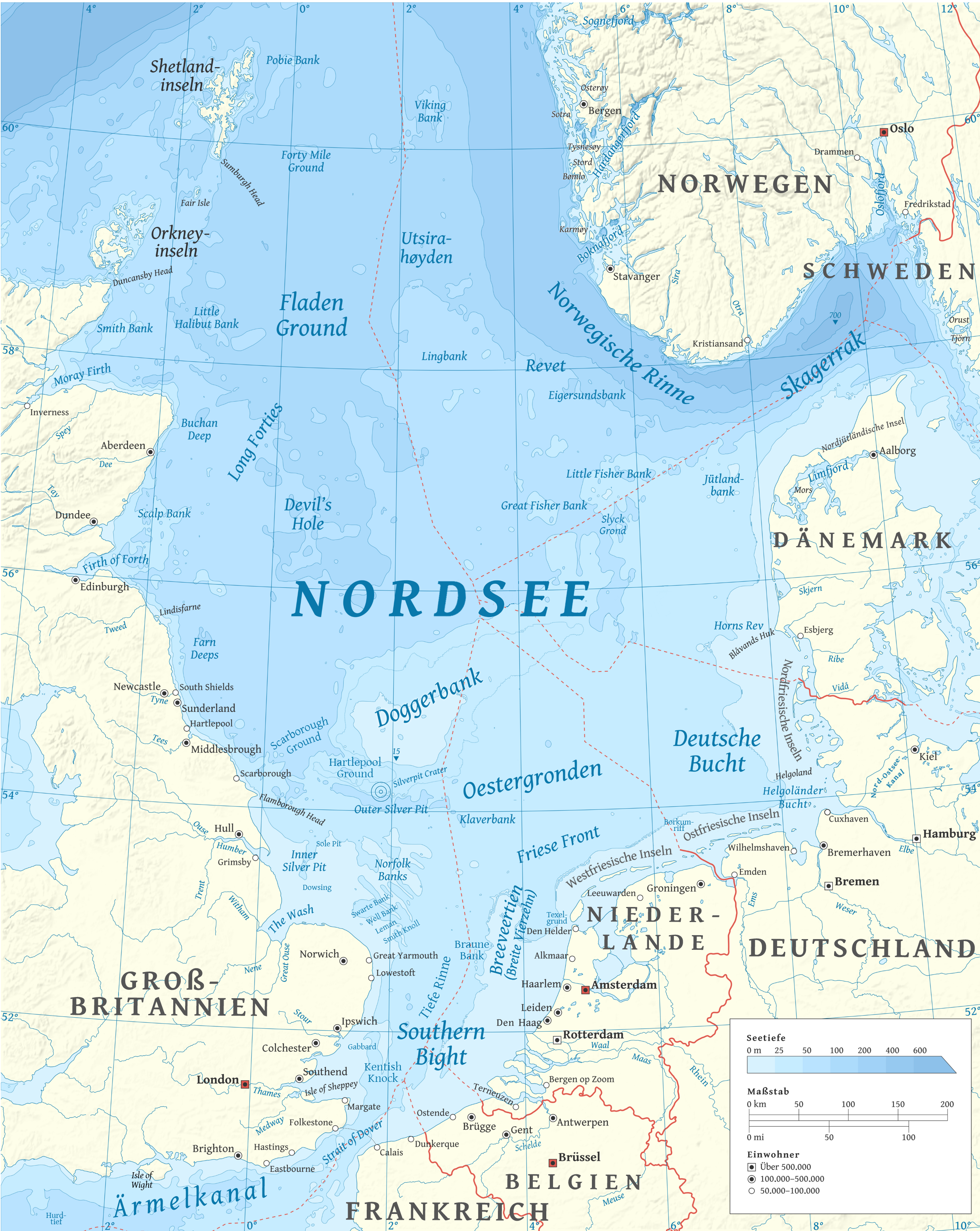 Map of the North Sea — in northern Europe.